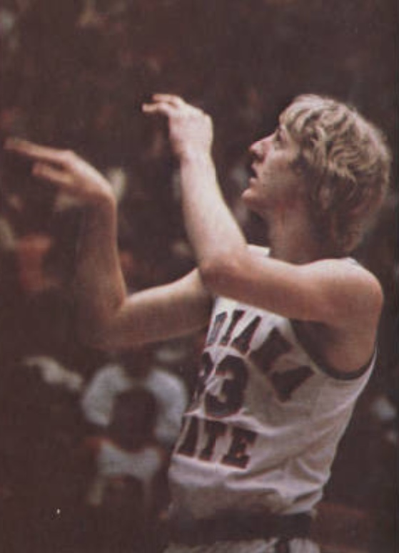 Indiana State University Sycamores basketball player Larry Bird from the 1977 “Sycamore” student yearbook.